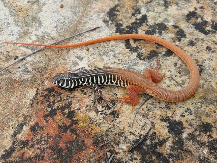 Nucras tessellata in Cape Cederberg